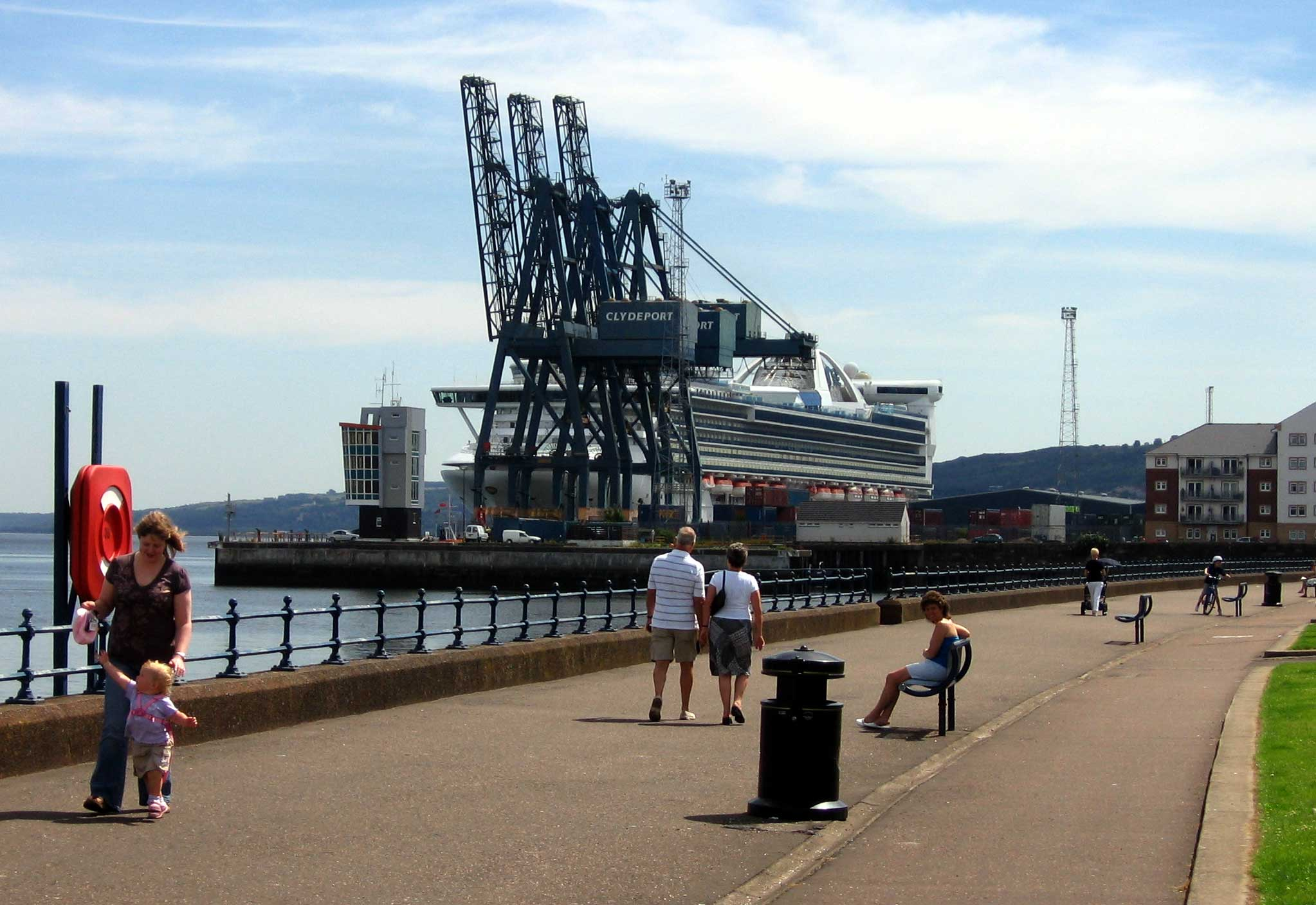 The 2,600 passenger Princess Cruises Cruise ship Golden Princess at Clydeport Ocean Terminal, Greenock, Scotland on the Firth of Clyde, seen from the Esplanade.